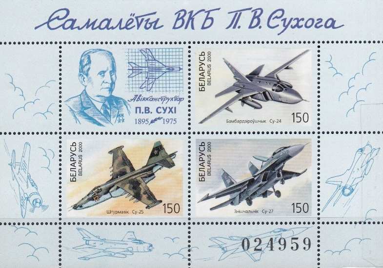 Stamp sheet of Belarus, Pavel Sukhoi